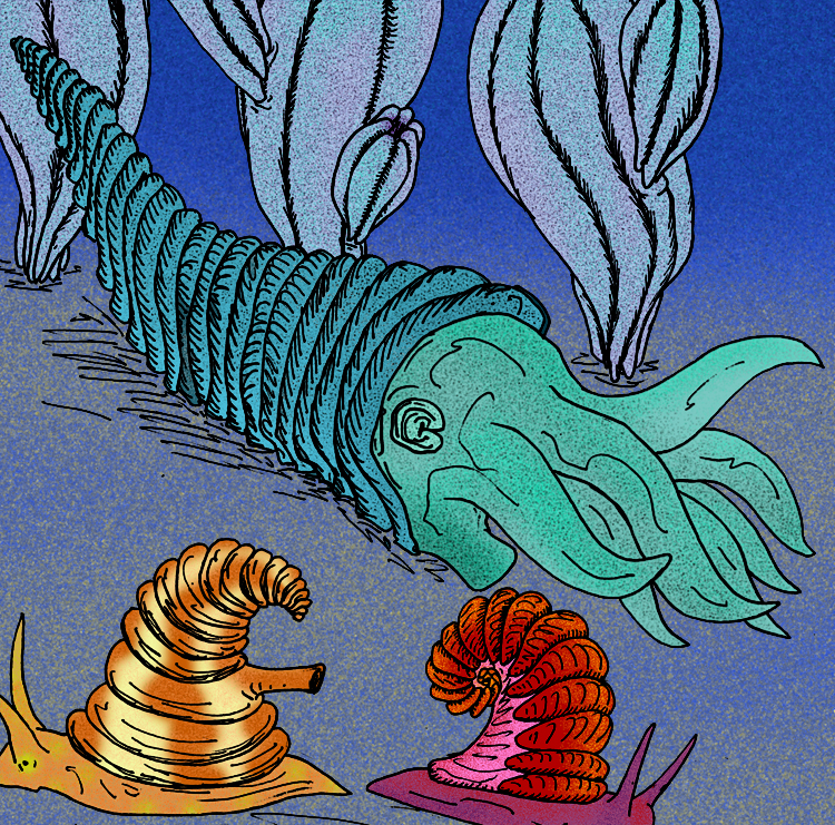 Tommotia kozlowskae, from Cambrian Siberia, erroneously reconstructed as a cephalopod-like mollusk. (C) Mr Fink